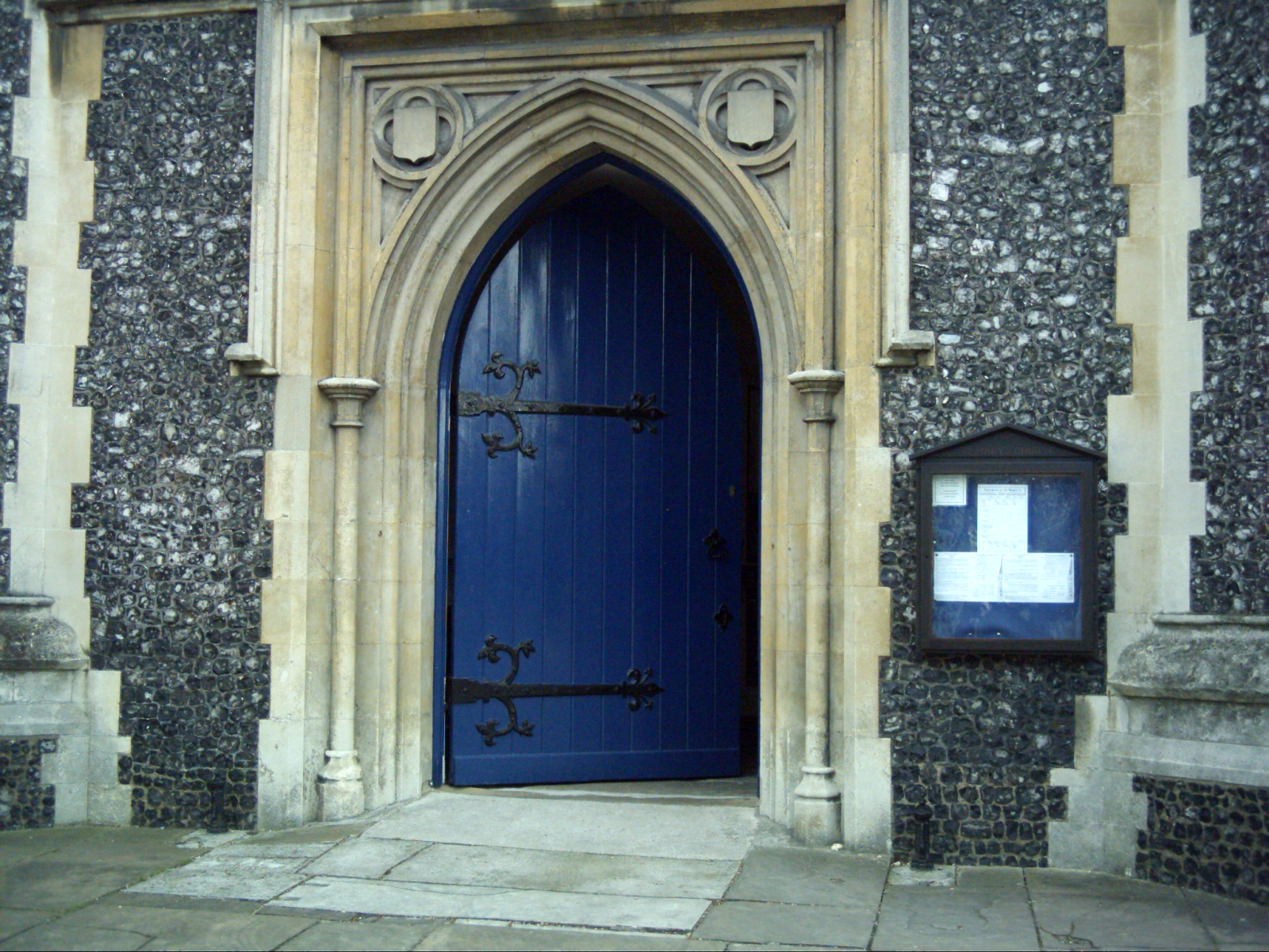 West Door of St Mary's Church.